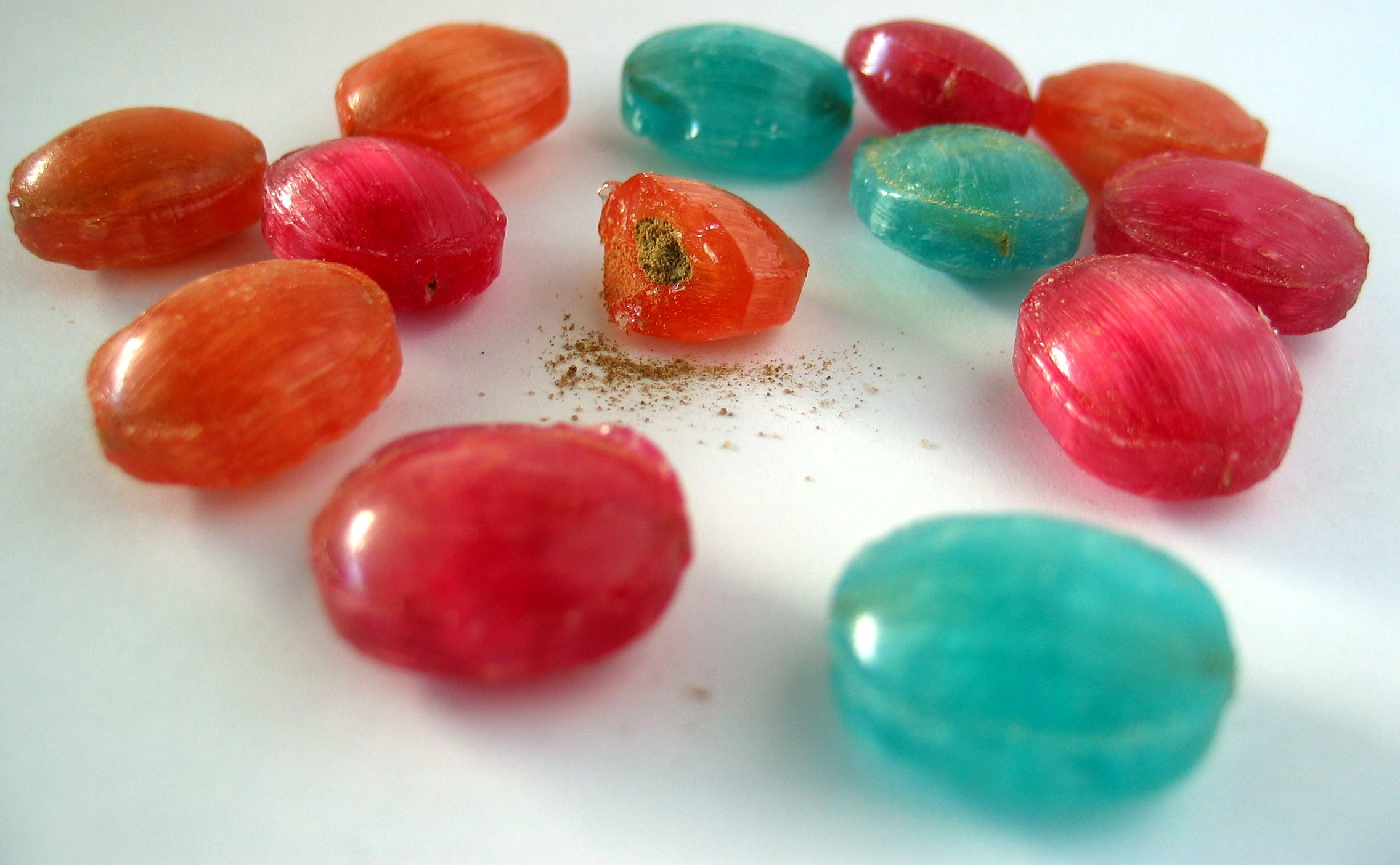 Some liquorice sweets from Turkish Pepper Hot & Sour, one showing the salmiakki powder inside.